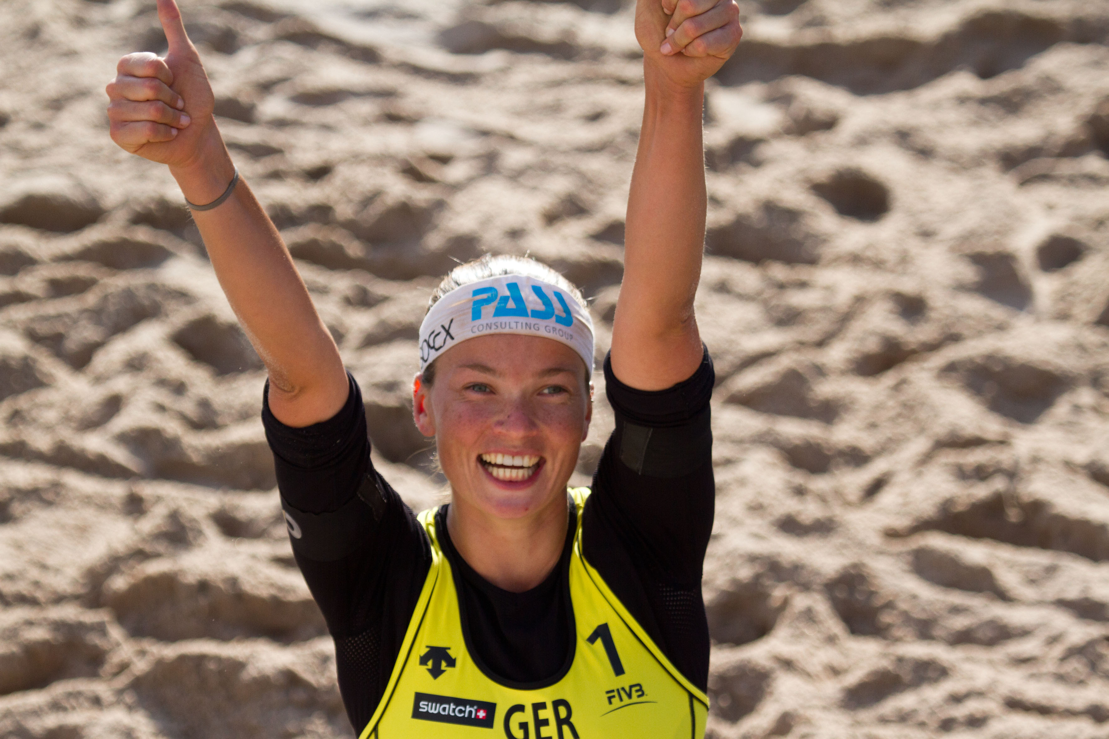 Holtwick and Semmler of Germany defeat Liliana and Baquerizo of Spain in the final to take gold. The final day of the Paf Open in Mariehamn, Åland, Finland, September 2 2012. Photograph: Rob Watkins/ This picture is free to use as long as it it credited: Rob Watkins/